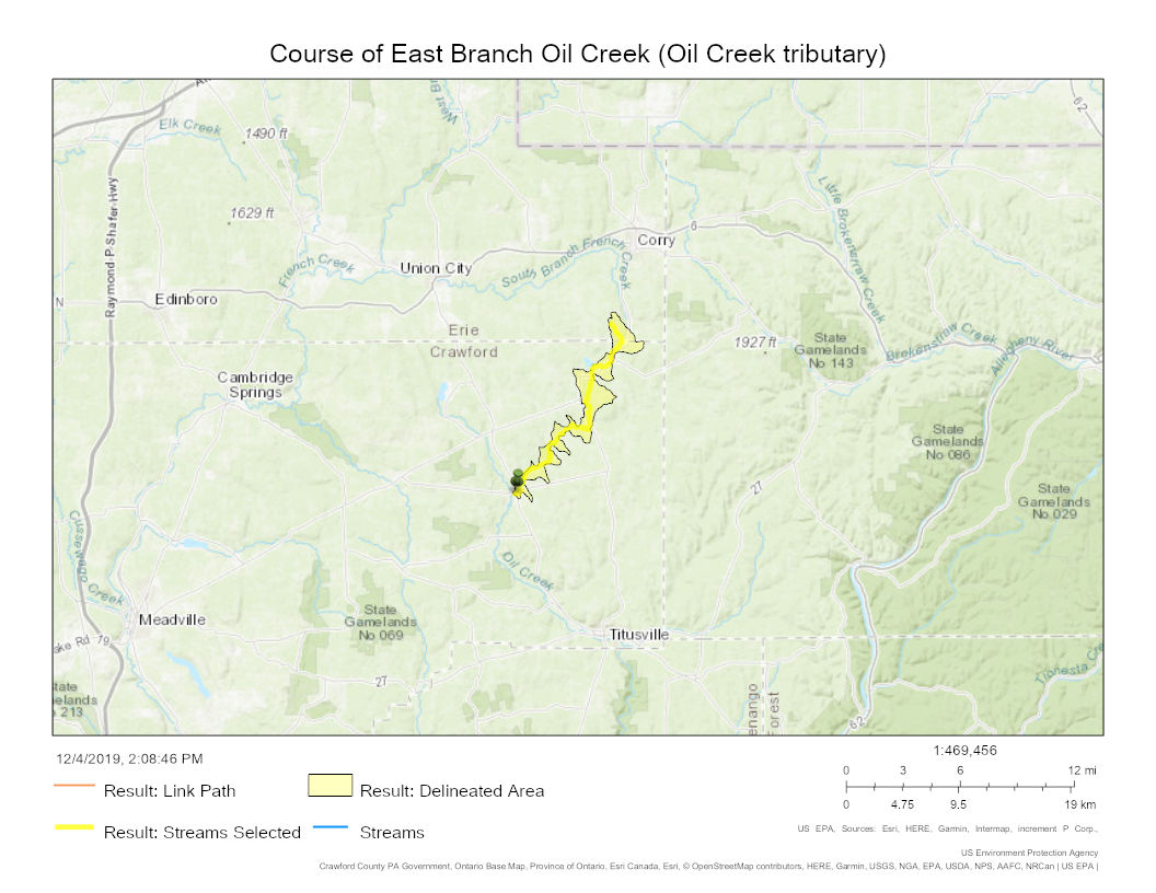 Map of the course of East Branch Oil Creek (Oil Creek tributary) in Crawford and Erie Counties, Pennsylvania.